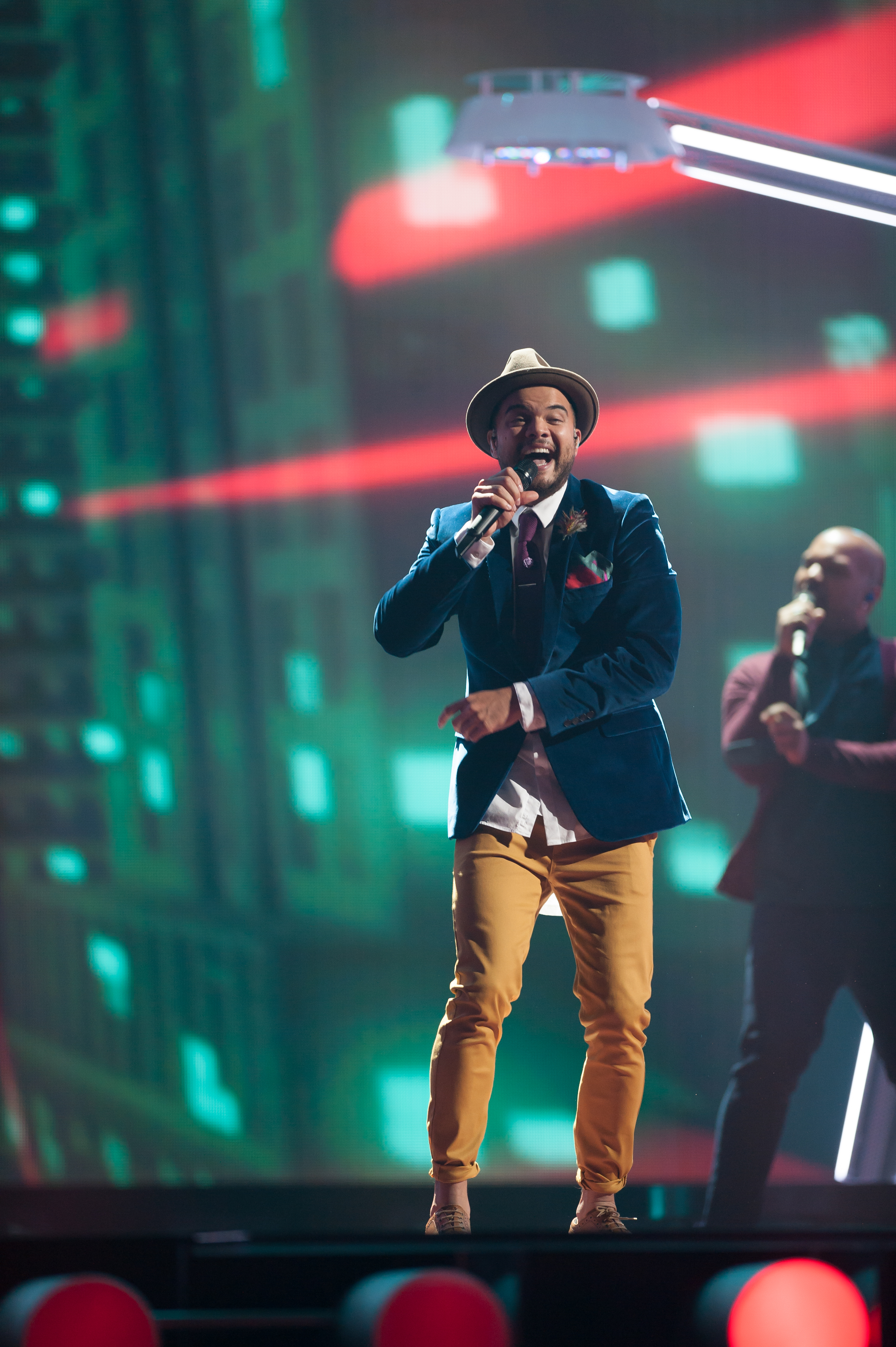 Eurovision Song Contest Vienna 2015: Guy Sebastian